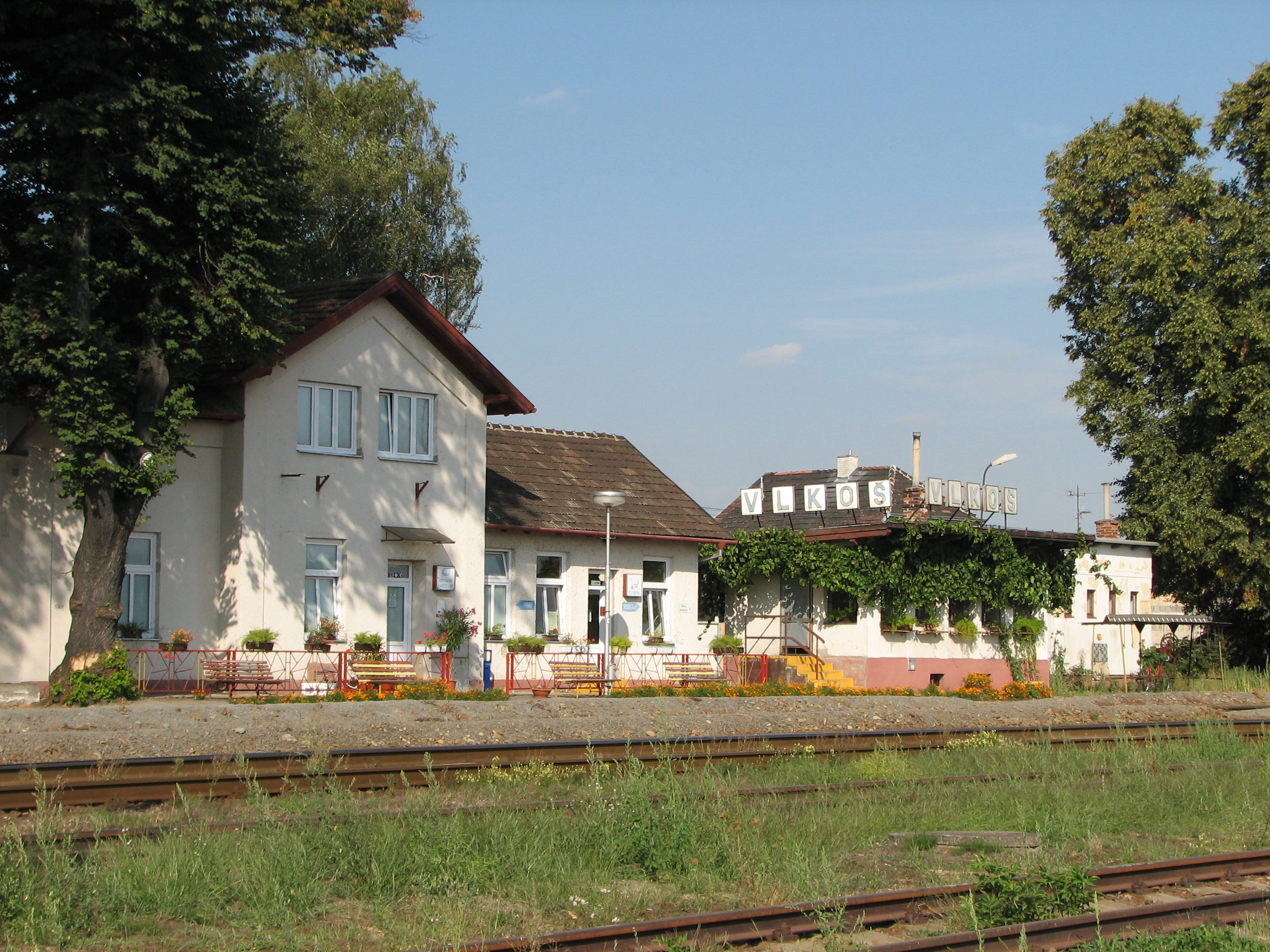 Railway station in Vlkoš, Hodonín District, Czech Republic